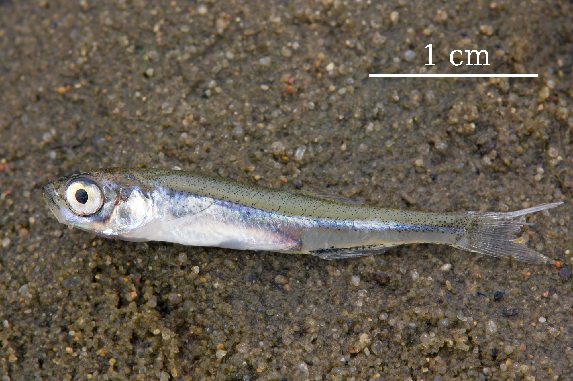 Young specimen of Leucaspius delineatus beyond the water; found dead, about 3 cm in length. Note that the fins are unnatural applied to the body.